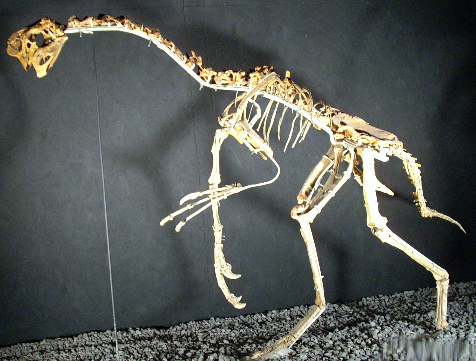 Citipati sp. fossil